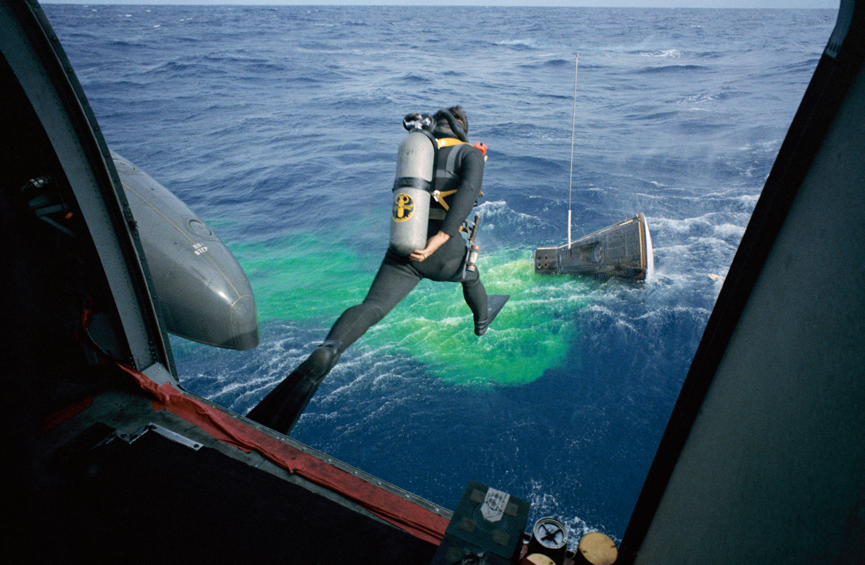 A Navy frogman leaps from a recovery helicopter into the water to assist in the Gemini-12 recovery operations. Astronauts James A. Lovell Jr., command pilot, and Edwin E. Aldrin Jr., pilot, had just completed their four-day space mission.